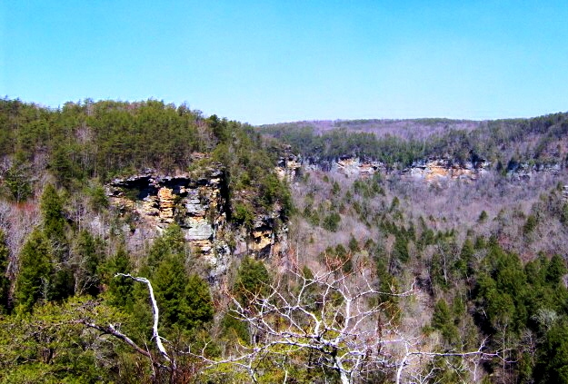 Looking west from the Rocky Point Overlook at Fall Creek Falls State Park, located in the Southeastern United States. The Cane Creek Gorge is below. Rocky Point consists of an exposed rocky outcropping, accessible from the Gorge Trail. A brief climb is necessary to reach the outcropping.